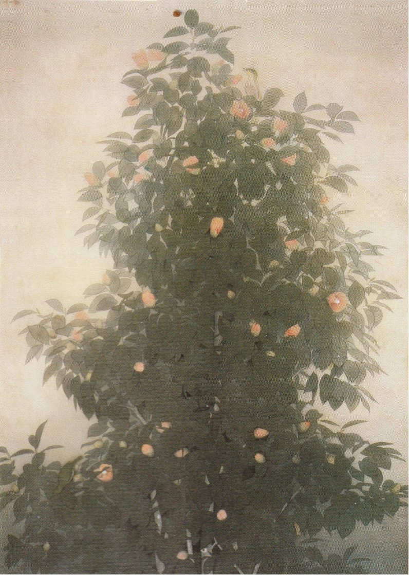 Kamisaka Shōhō: Camellia